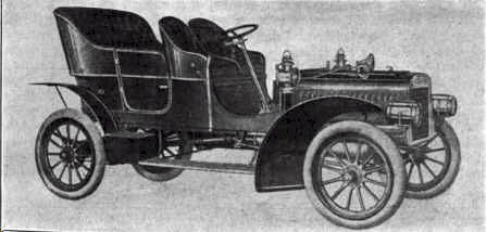 1905 Moline 18/20 HP Model B Surrey with 4 cylinder engine manufactured by the Moline Automobile Co. in East Moline, Ill. No Connection to the Moline Plow Co.